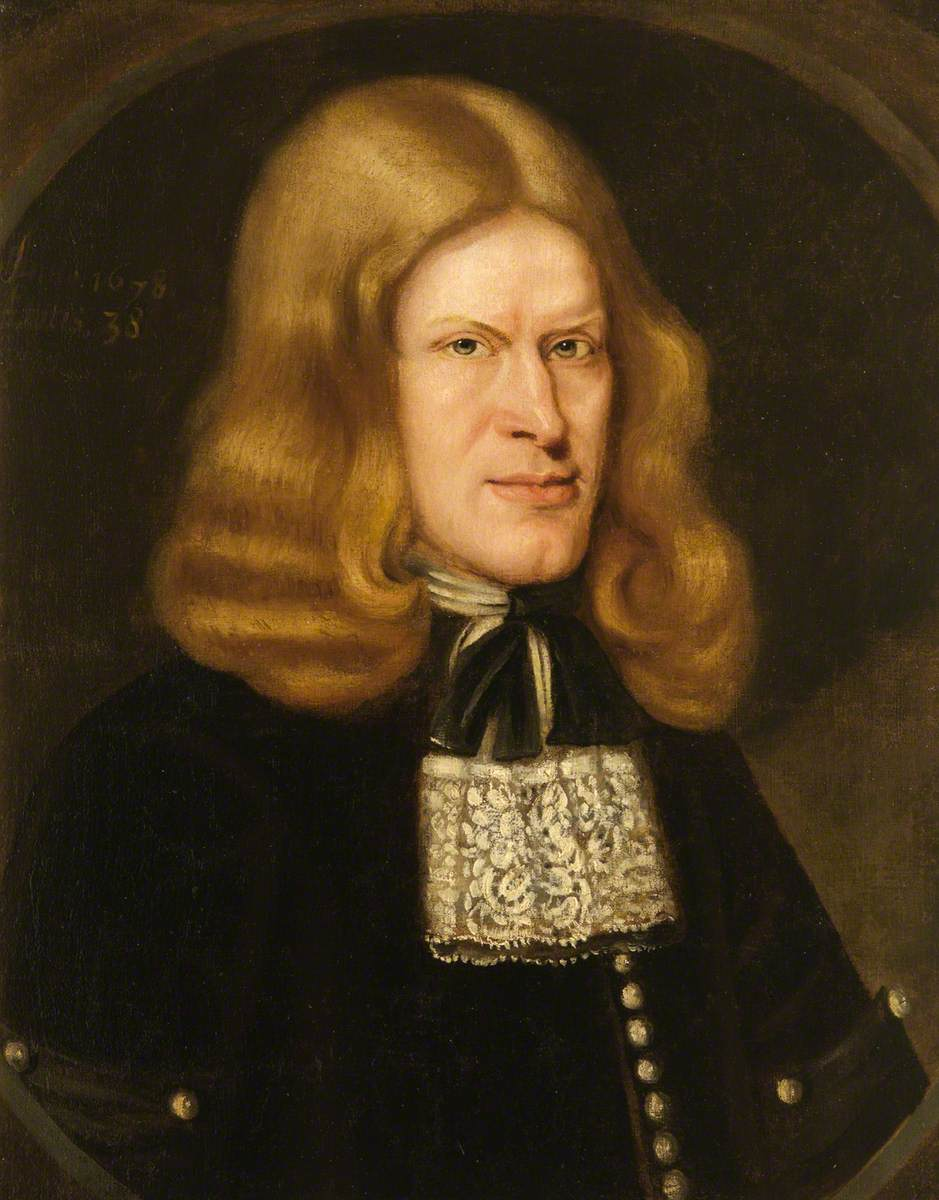 Sir John Forbes, 2nd Baronet of Craigievar, aged 38, bust length, in dark dress with white lace fichu & long fair hair, INS & DATED, in a painted oval.